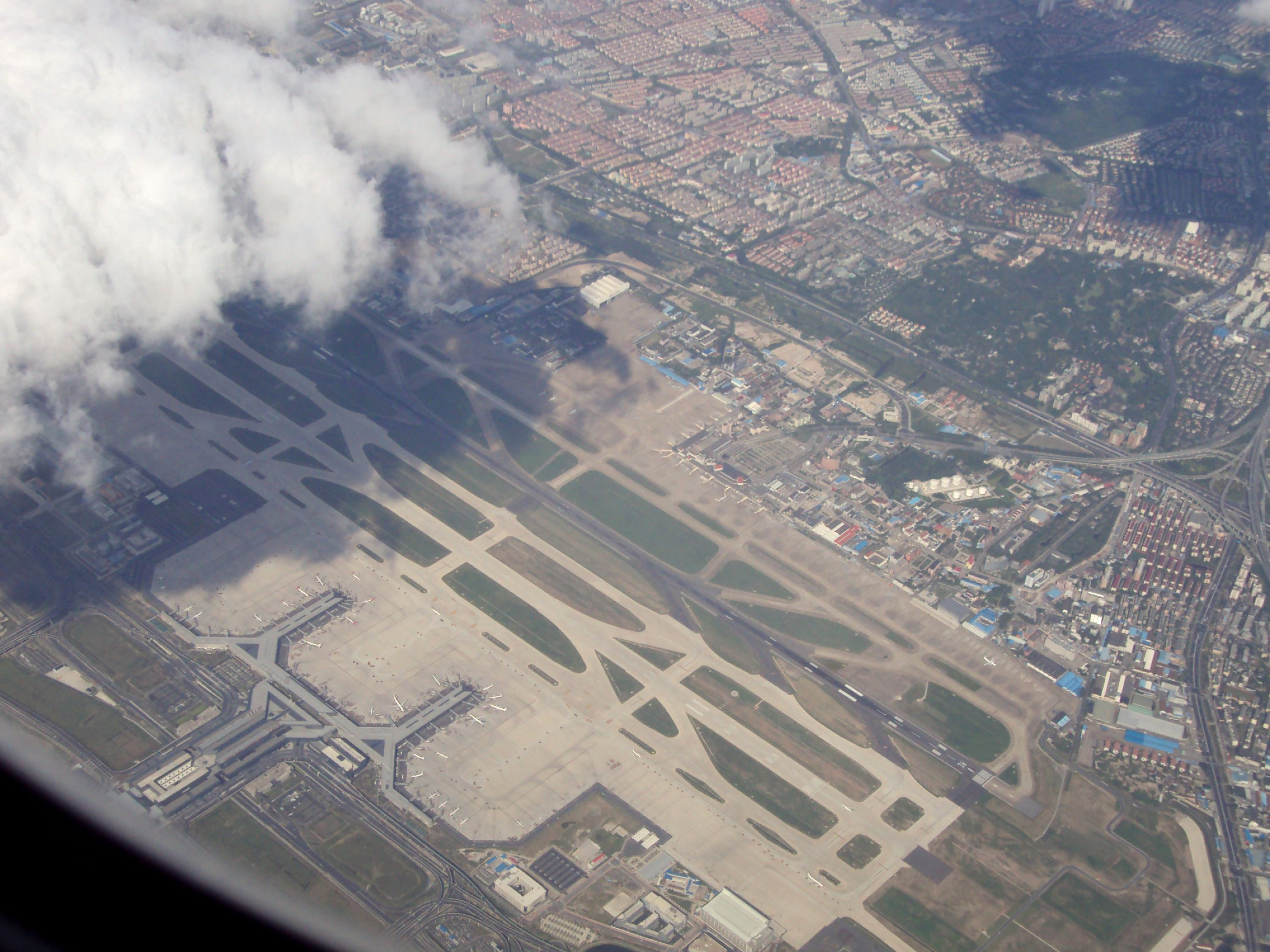 aerial photo of SHANGHAI HONGQIAO INTERNATIONAL AIRPORT. Looking from the southwest. The huge terminal 2 of the airport, and a small part of the adjacent Hongqiao Railway Station are near the bottom left corner of the image. The much smaller Terminal 1 is near the center.